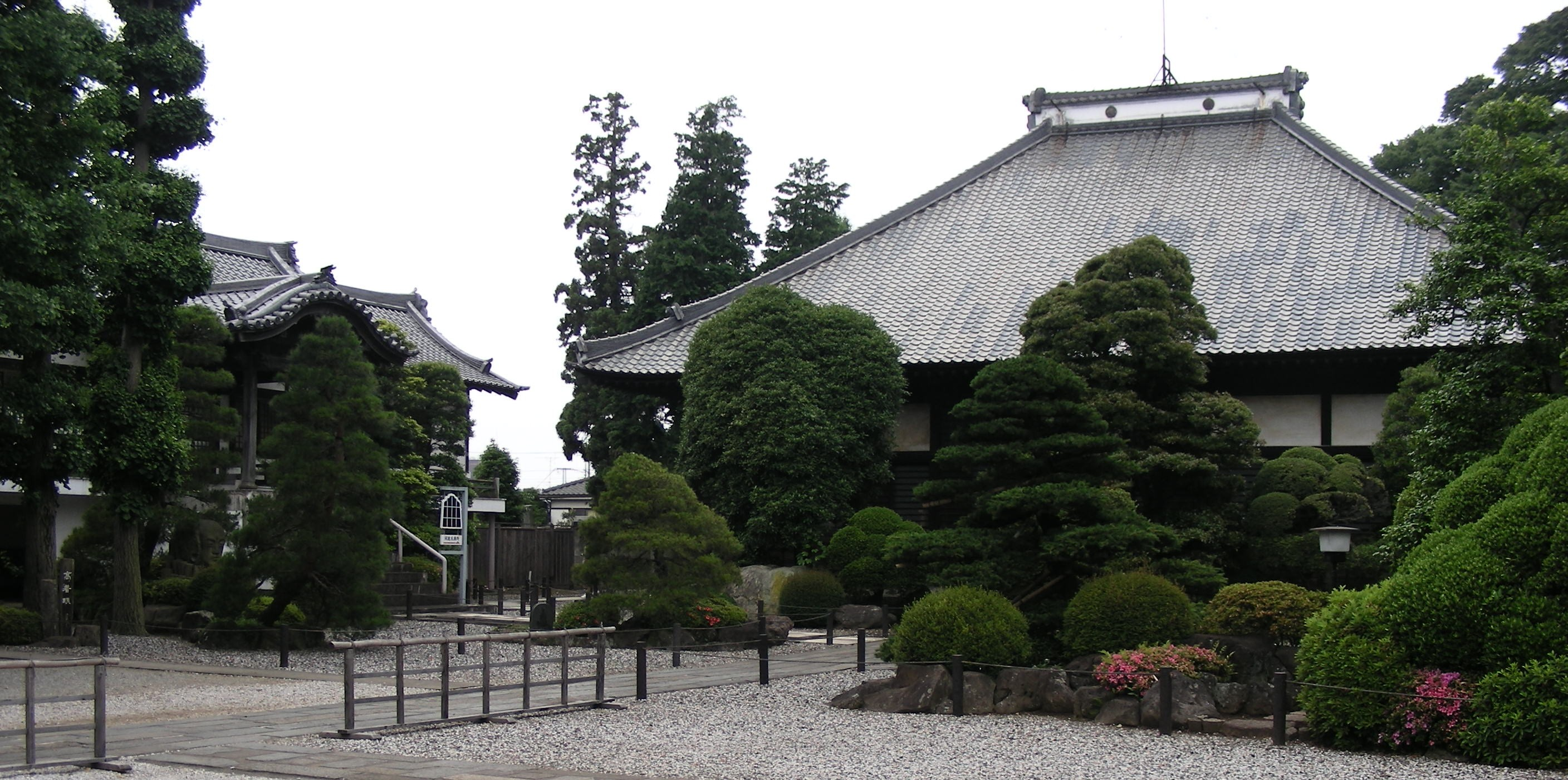 The Yojuin temple in Kawagoe City, Saitama Prefecture, Japan